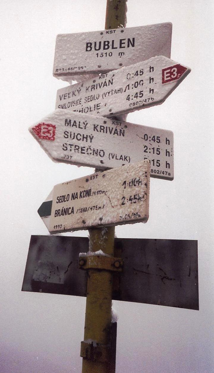 Sign of the E3 European long-distance footpath on the Malá Fatra mountains in northern Slovakia in about May 2004.